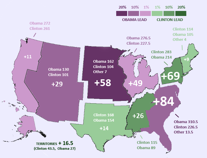 2008 United States Democratic Primaries, Pledged Delegates by Region. Regions are outlined according to United States census categories. The darkest purple regions voted for Obama by the largest margins. The darkest green states vote for Clinton by the largest margins. NOTE: This map is intended to reflect "election results." It reflects delegate changes that occur in states where delegates are selected through multiple events (e.g. IA, TX) but not delegate changes that have occurred in other states where bound delegates have indicated an intention to vote otherwise at the convention (e.g. NH, MD).